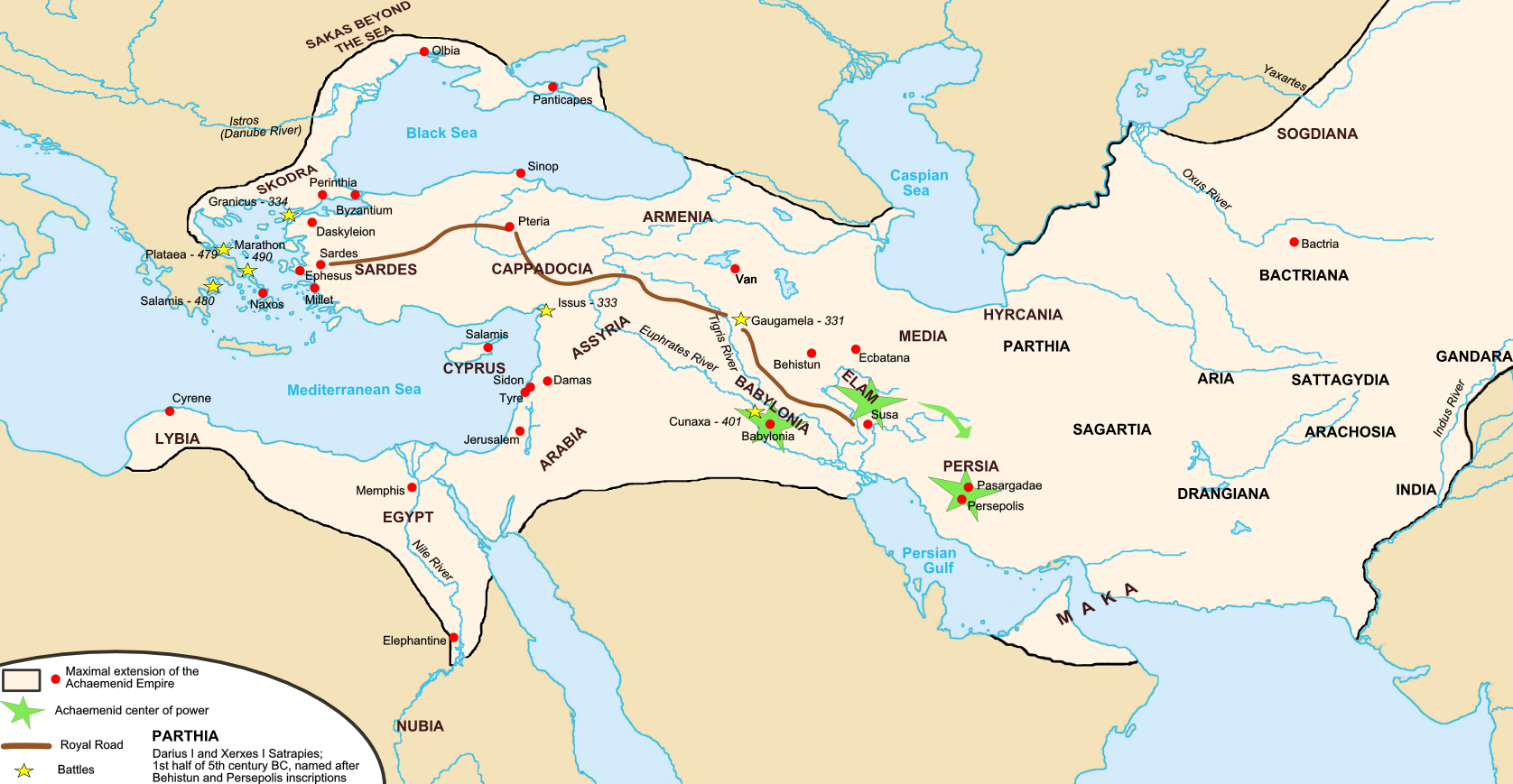 Date 31 August 2006 (original upload date)Source Own workAuthor FabienkhanOther versions This historical map image could be re-created using vector graphics as an SVG file. This has several advantages; see Commons:Media for cleanup for more information. If an SVG form of this image is available, please upload it and afterwards replace this template with vector version available|new image name . It is recommended to name the SVG file "Map achaemenid empire en.svg" - then the template Vector version available (or Vva) does not need the new image name parameter. Licensing[edit]